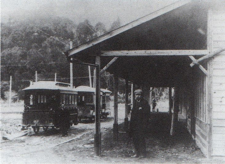 Odawara wagon railway Yumoto Sta.(1900)